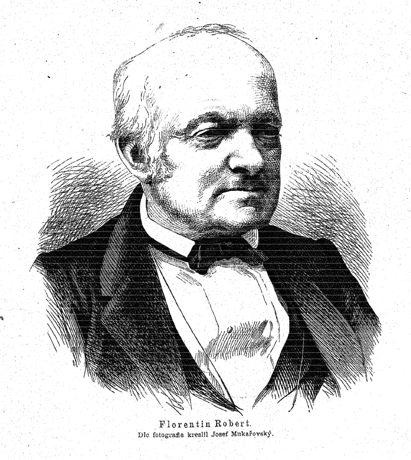 Portrait of Robert Florentin (1795-1870), Czech industrialist and politician of French origin active mainly in Moravia.